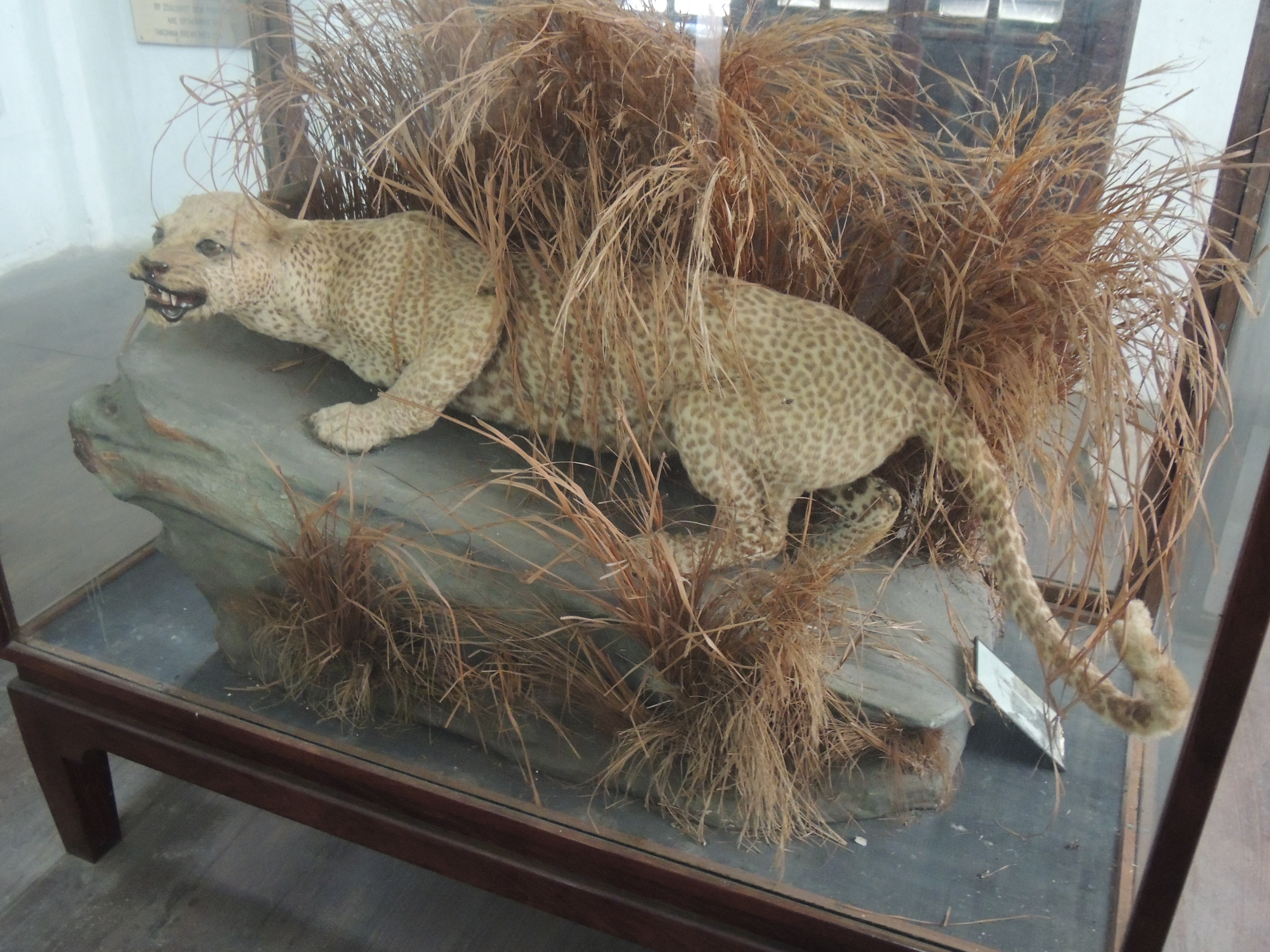 The Zanzibar Leopard (Panthera pardus adersi) in the Zanzibar Natural History Museum in Zanzibar City (or Zanzibar Town), Zanzibar (Tanzania). Now most likely extinct.